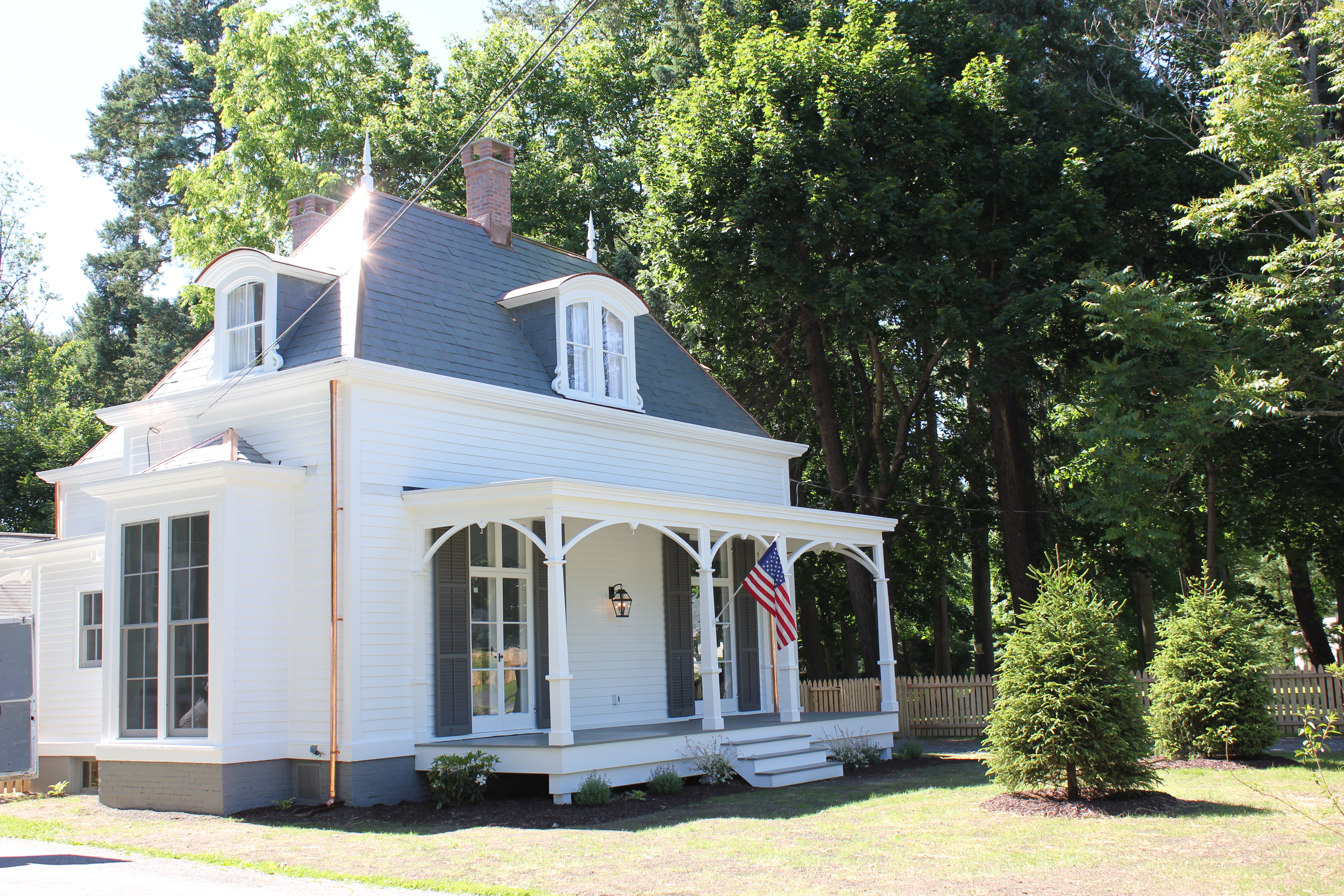 This is a front snap of the Gatehouse.